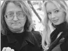 Gradsky in New Vzglyad